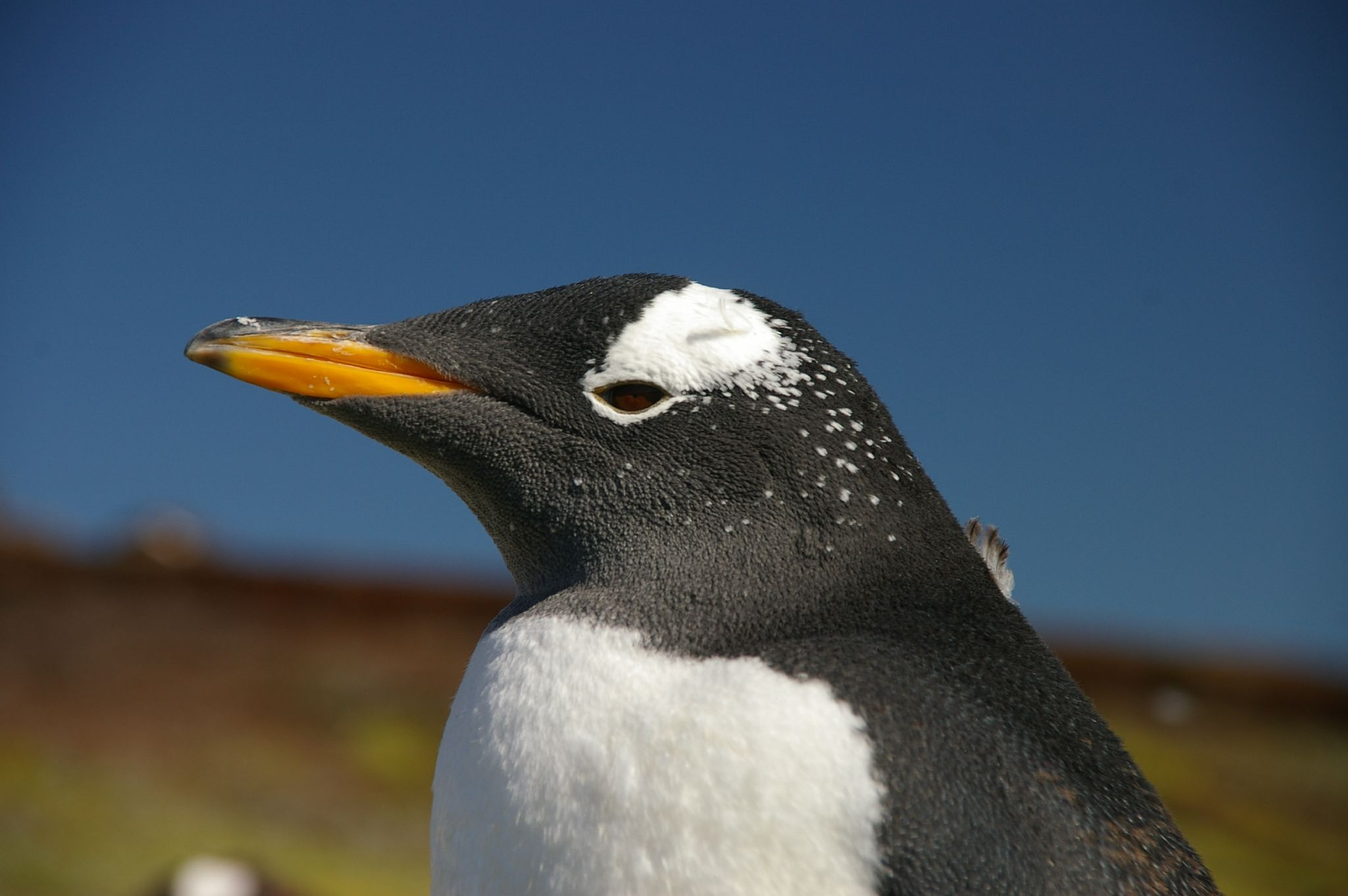 Gentoo Penguin (Pygoscelis papua), West Falkland